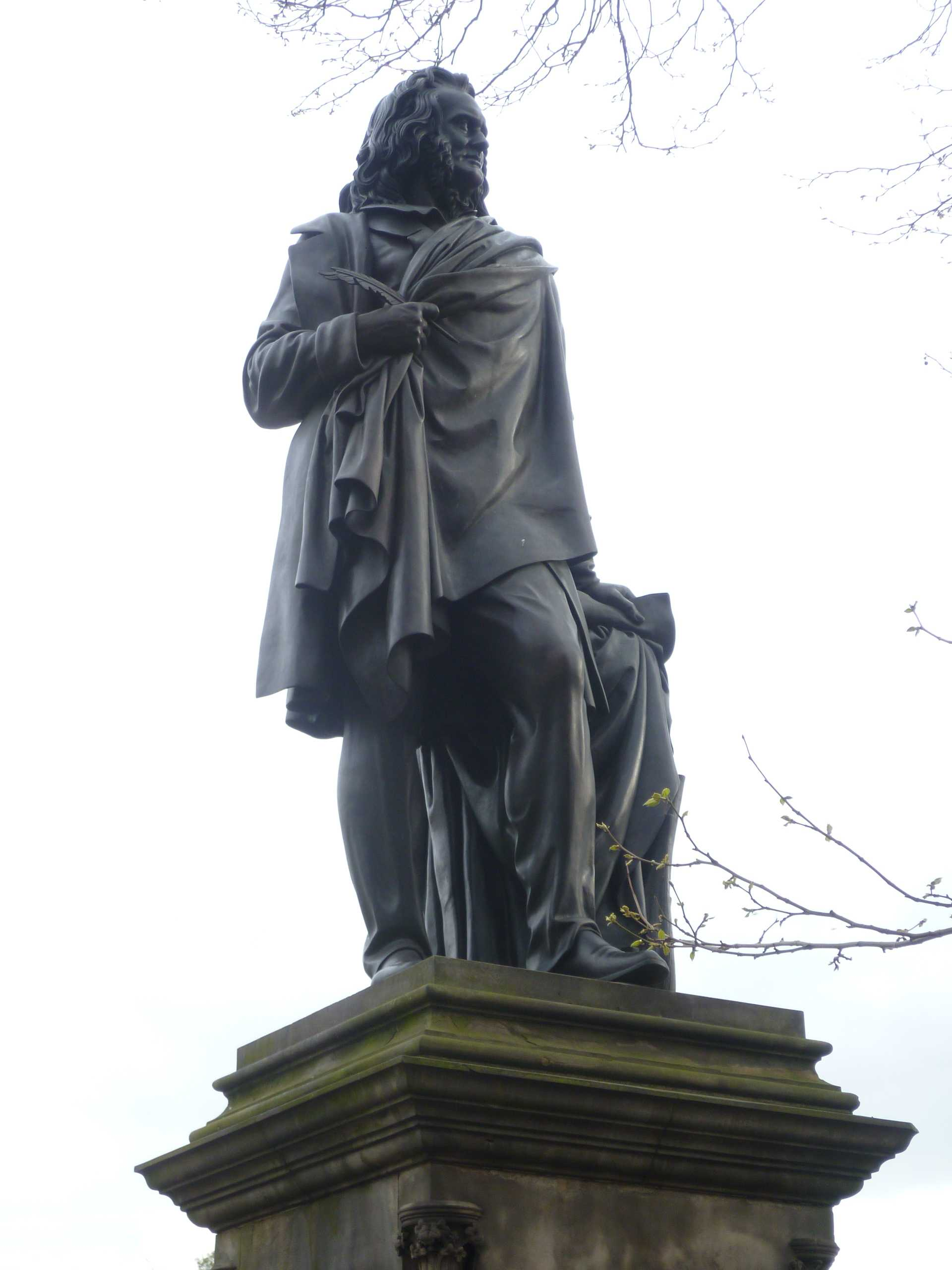 John Wilson aka 'Christopher North' statue, Princes Street Gardens